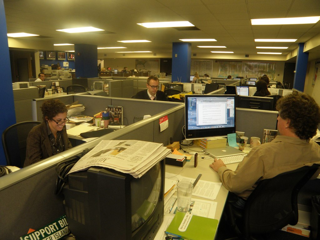 Office space used by investigative media "The Lens", New Orleans.